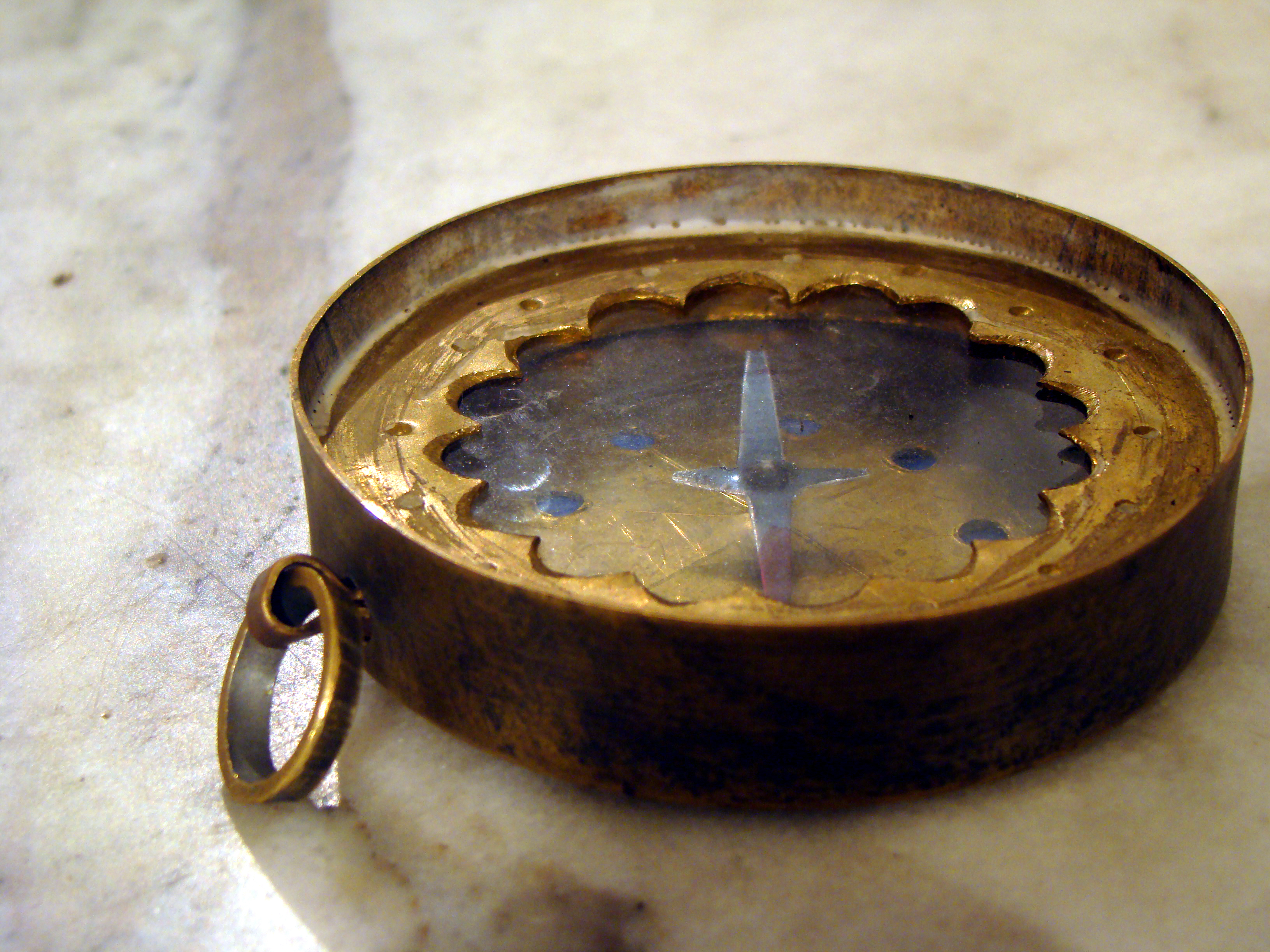 Hand made Compass by Mr, Ebrahim Latakhafi